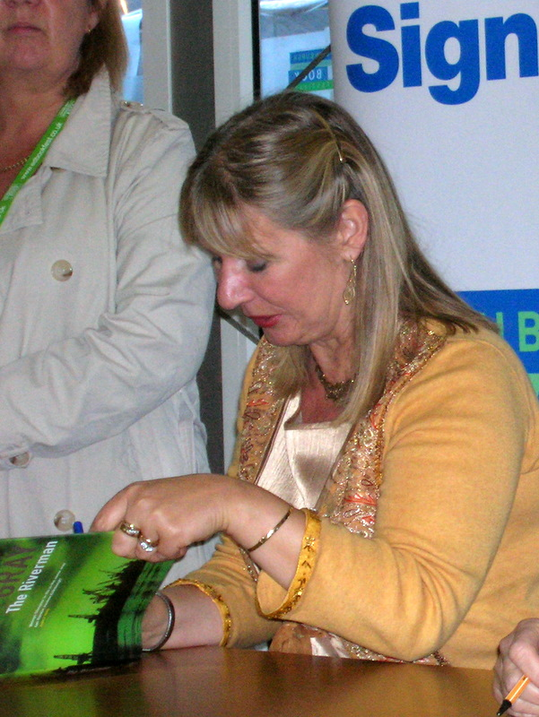 Alex Gray, novelist, signing books at the Edinburgh International Book Festival, 2007